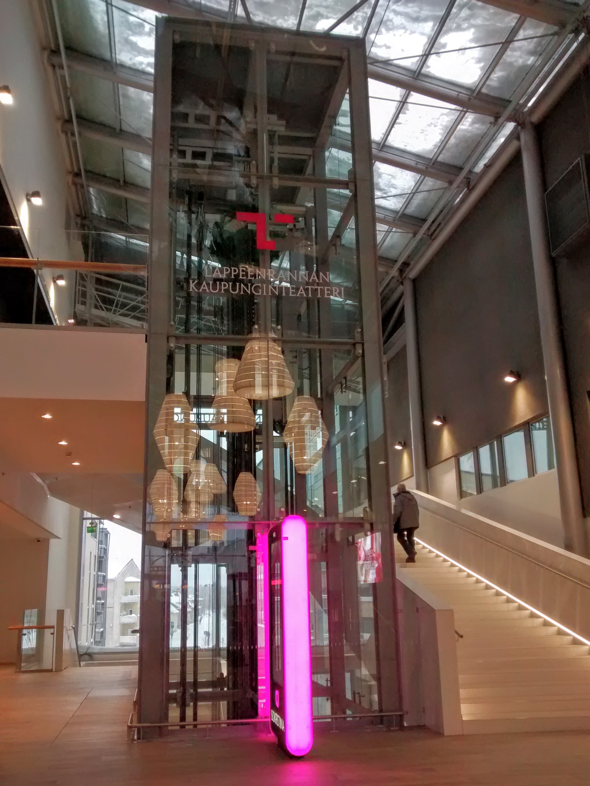 Stairs leading to the new (2016–) Lappeenranta City Theater in Iso-Kristiina shopping center.